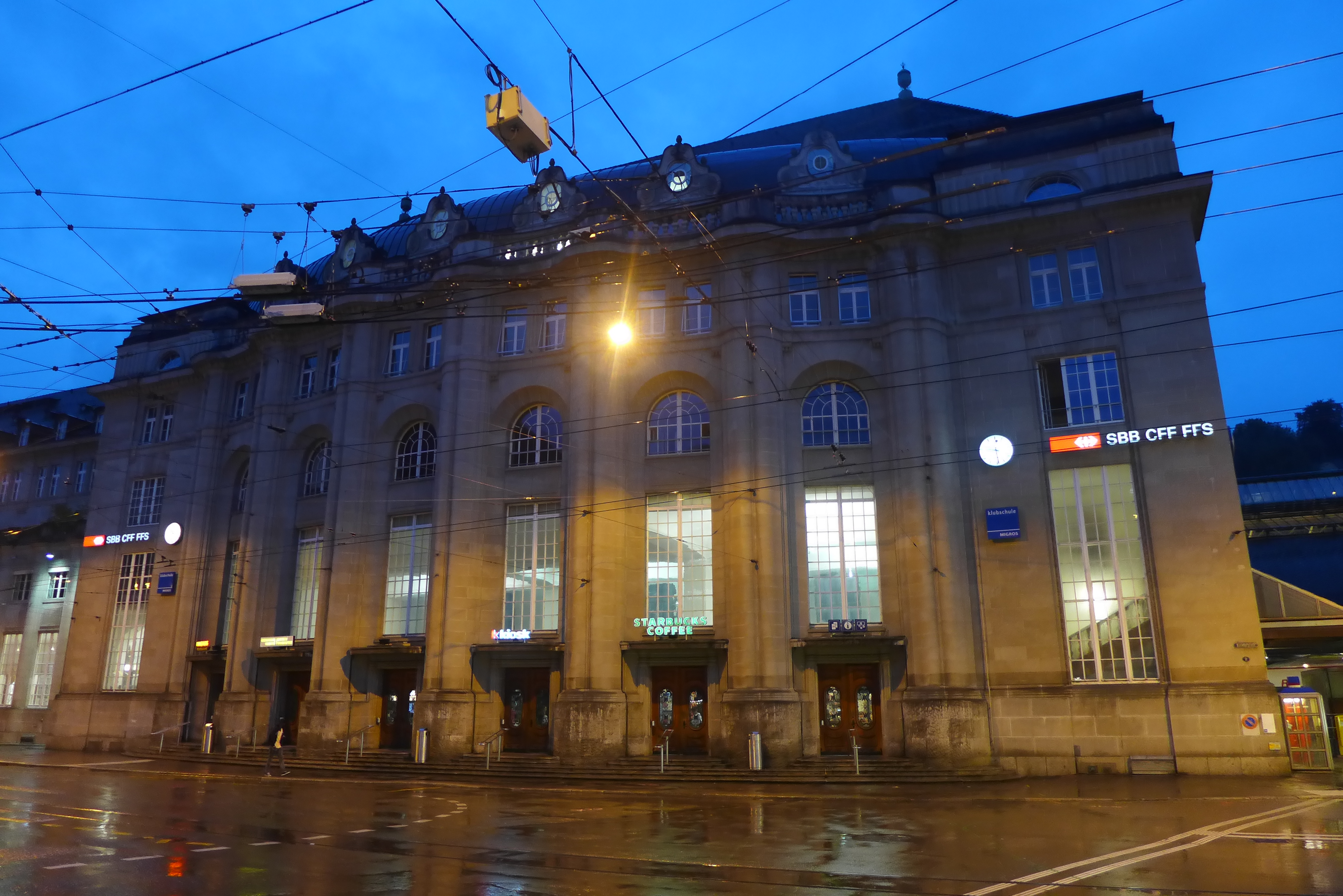 Night view of the station building at St. Gallen railway station, Switzerland.